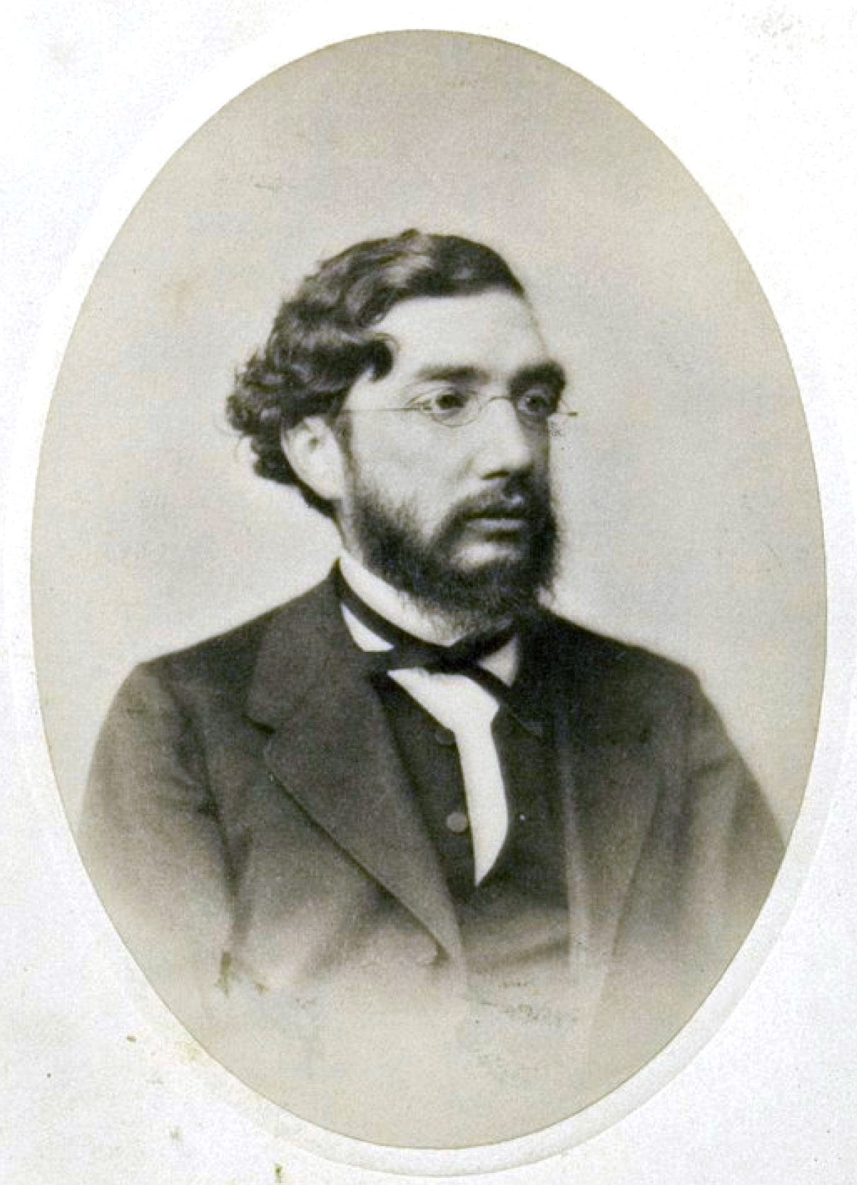 Aleksandr Fedorovič Gil'ferding (1831-1872)